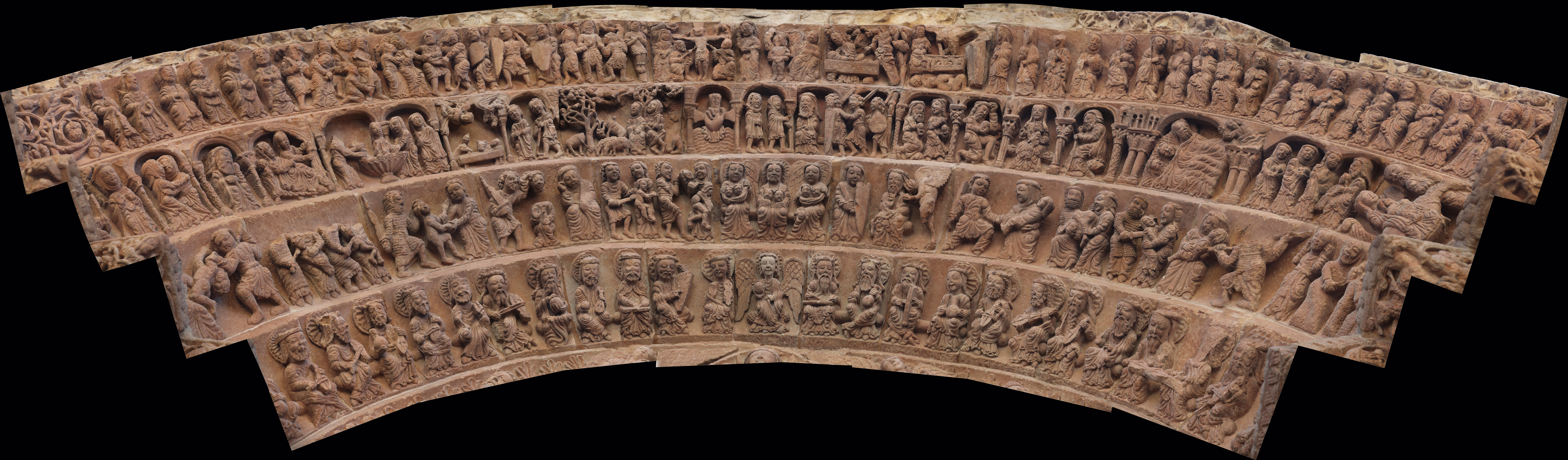 Photographic development of the Santo Domingo of Soria façade´s archivolts.